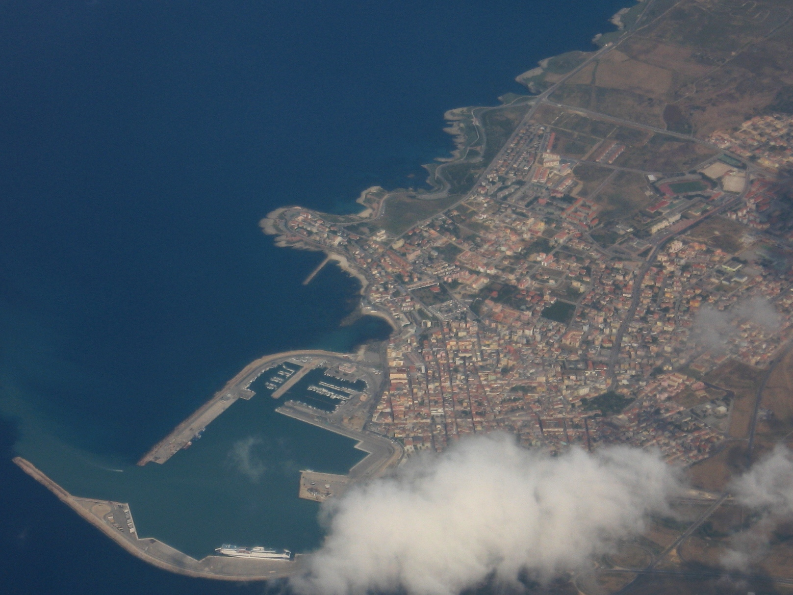 Porto Torres - aerial city view